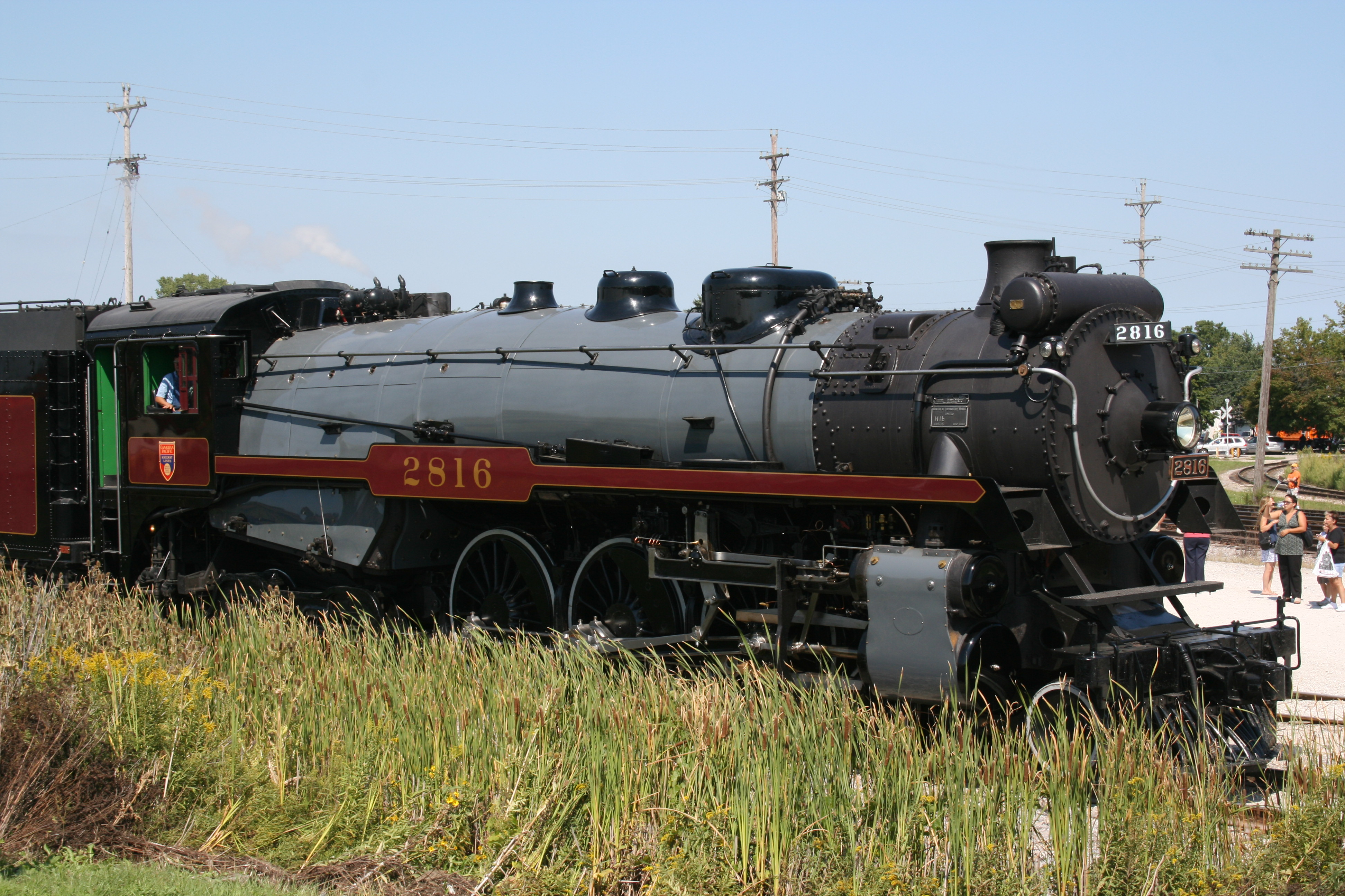 The Canadian Pacific 2816 "Empress" steam locomotive at a stop in Sturtevant, Wis.